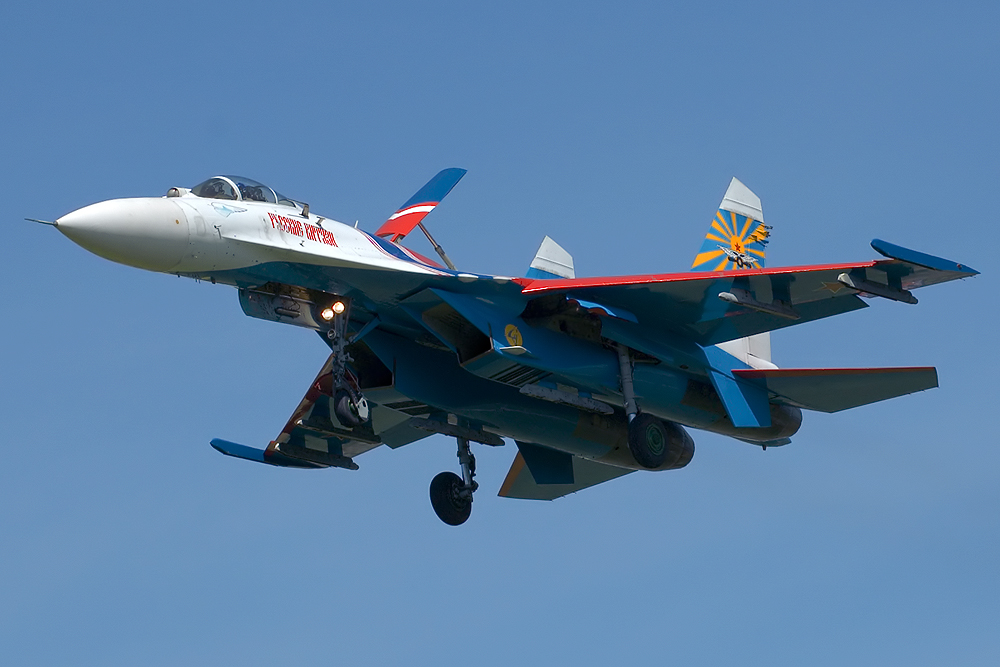 Su-27 from Russian Knights aerobatic team